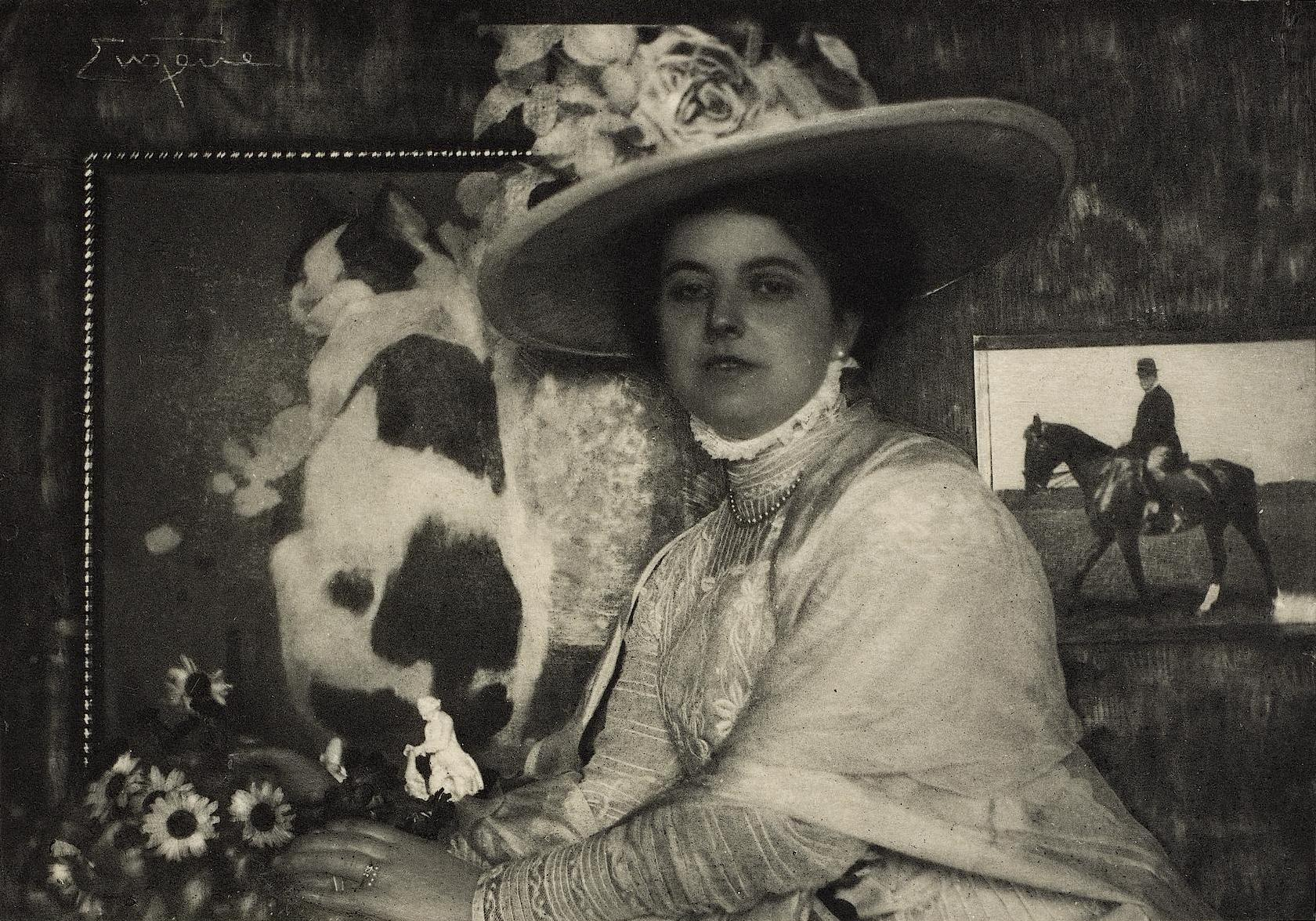 Léonie Dörr married Ludwig Hohlwein in 1901. This photo was taken by Frank Eugene and published in Camera Work #31 in 1910.